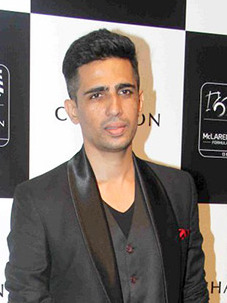 Gulshan Devaiya at Chandon's party.